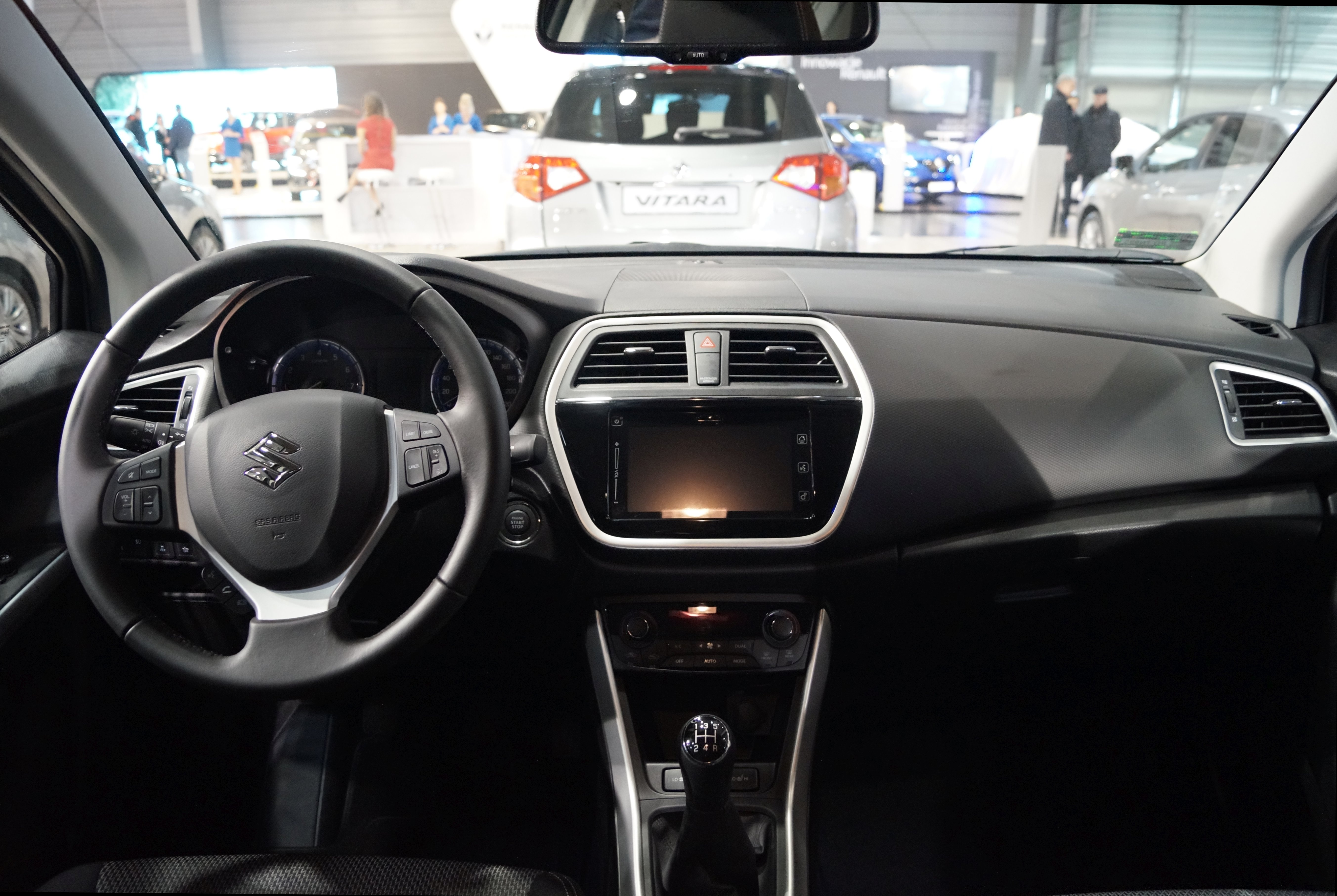 The making of this document was supported by Wikimedia Polska Association, within Wikigrant no. WG 2016-10. English | polski | +/− Wnętrze Suzuki SX4 S-Cross na Motor Show Poznań 2016